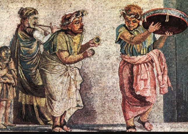 Musician with tympanon. Detail of a roman mosaic of a street scene with musicians from the Villa del Cicerone in Pompeii. Ther mosaic is signed by Dioskurides of Samos. Museo Archeologico Nazionale (Naples).